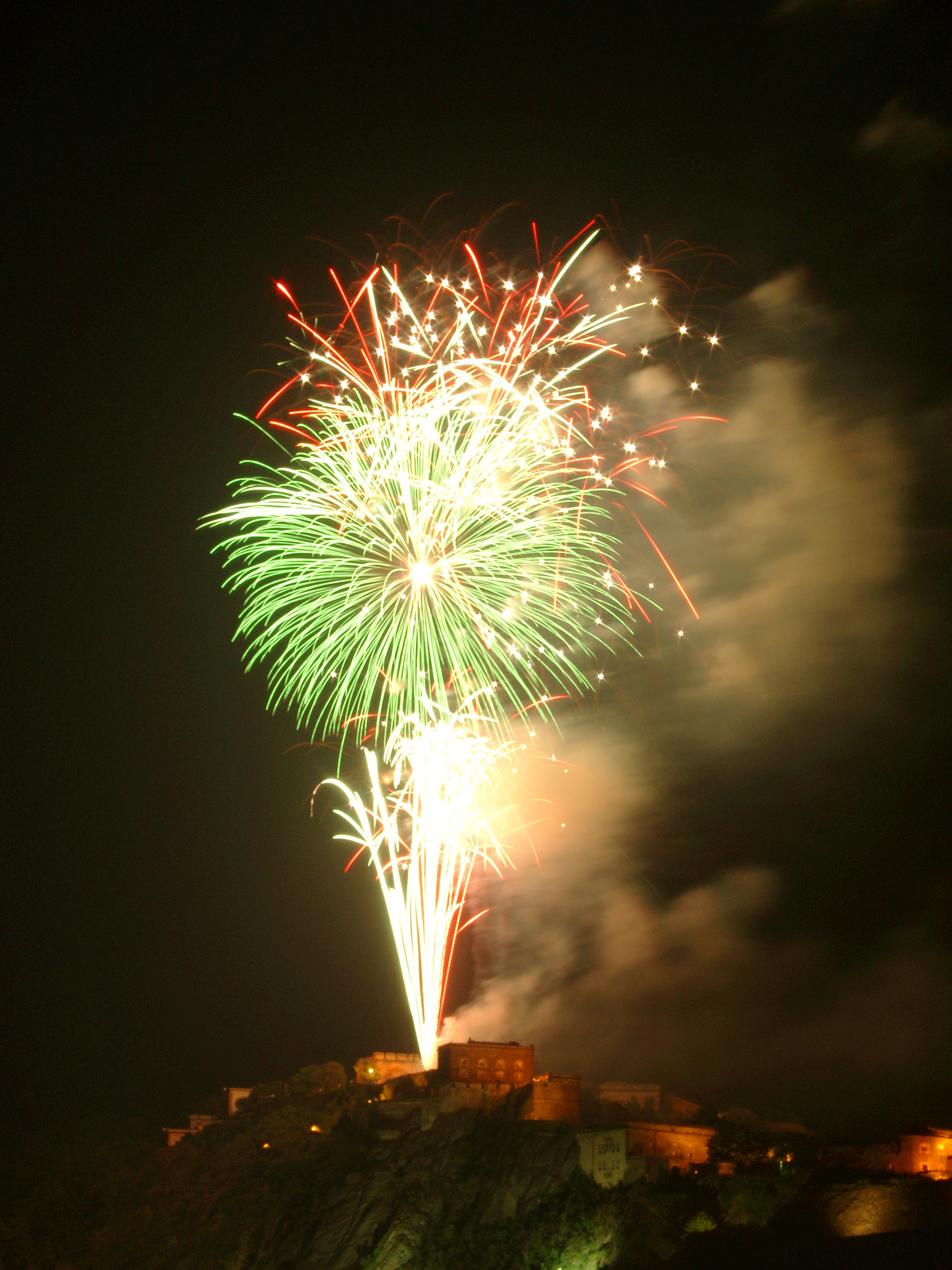 Firework „Rhein in Flammen“ in Koblenz